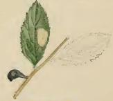 Stainton’s Natural History of the Tineina (1855–1873): Coleophora anatipennella sloe twig with leaf eaten by the larva and a case attached to the stem